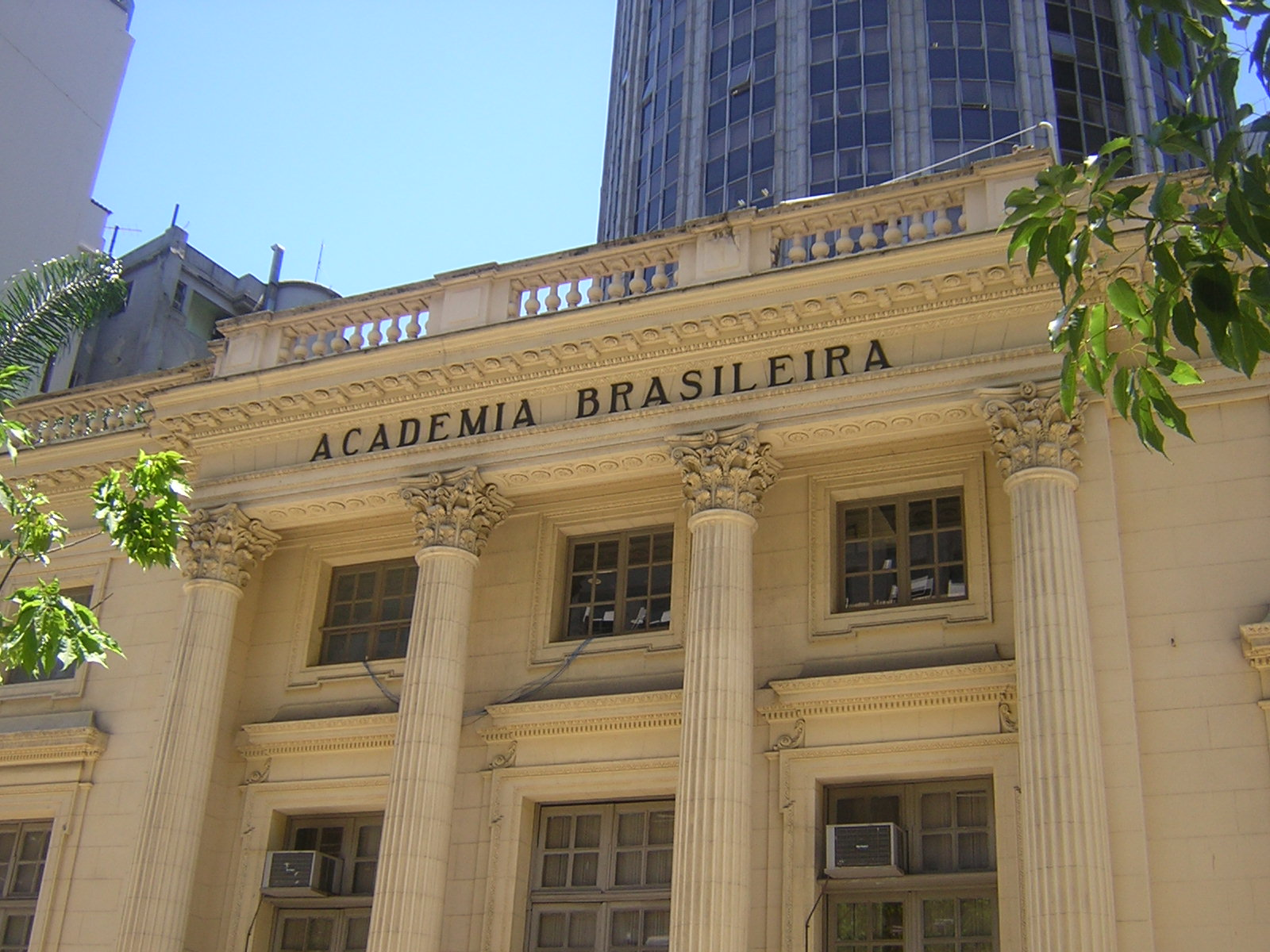 The Brazilian Academy of Letters (closeup)